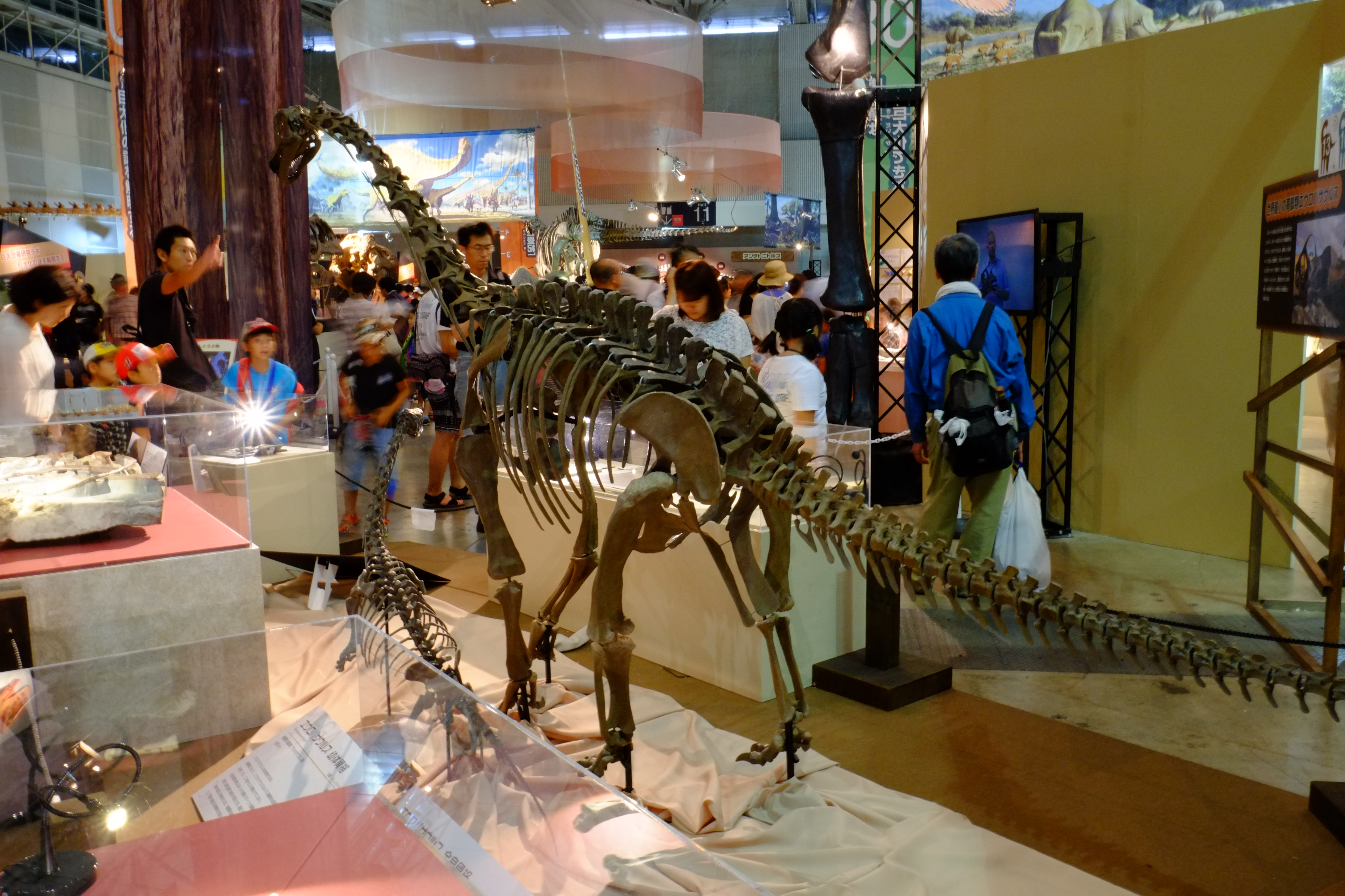 大人でも全長6メートル。現在知られている中で唯一島嶼矮小化竜脚類として有名らしい。